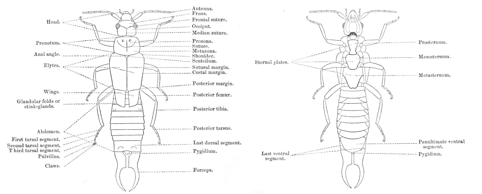 Illustration of Dermaptera morphology from Fauna of British India. 1910. Dermaptera. Malcolm Burr (1878-1954) but book in public domain as work of Indian government done prior to Indian independence in 1947.